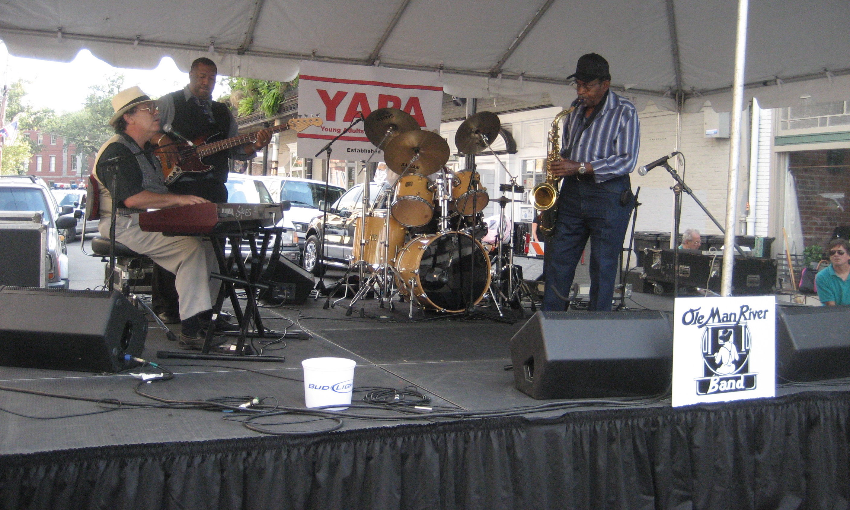 "Ole Man River Band" playing at street music party on Frenchmen Street in the Faubourg Marigny section of New Orleans